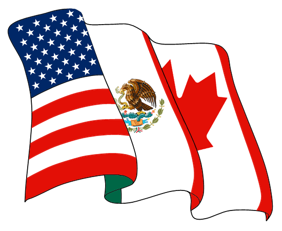 A North American Free Trade Agreement (NAFTA) Logo.